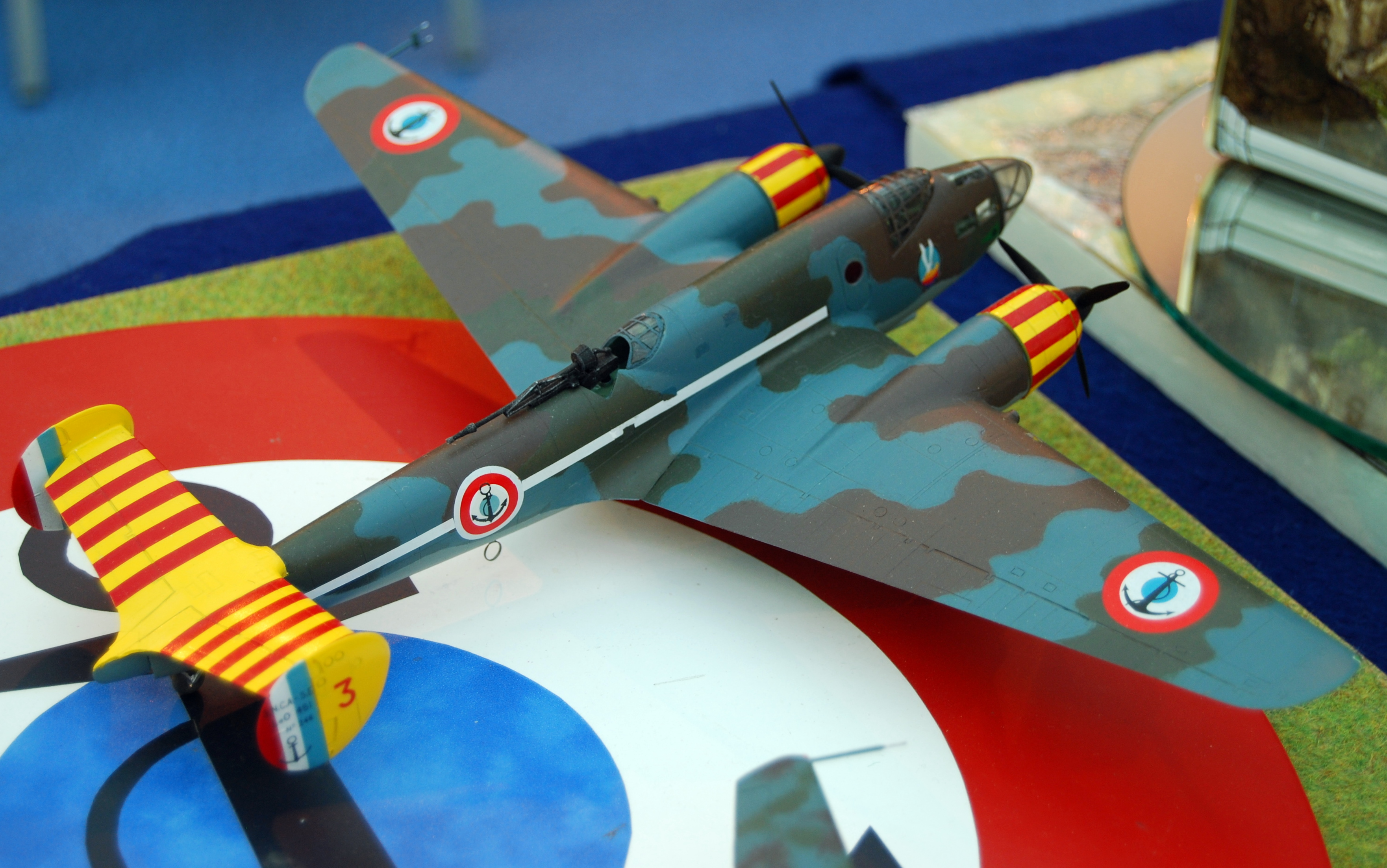 Photo ref; DSC0977-2012